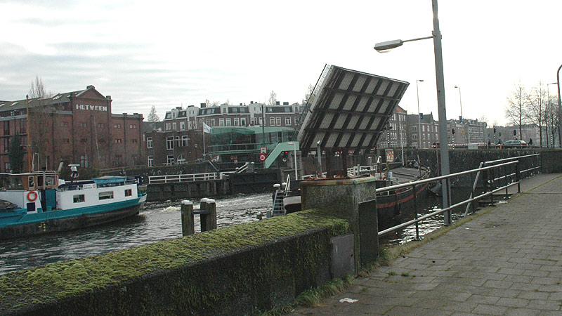 Moveable bridge in Amsterdam, Netherlands.